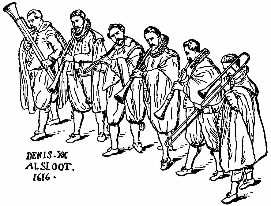 Drawing of six musicians playing in a row. The instruments are (from left to right): a bass dulcian, an alto shawm, a treble cornett, a soprano shawm, a second alto shawm and a tenor sackbut.